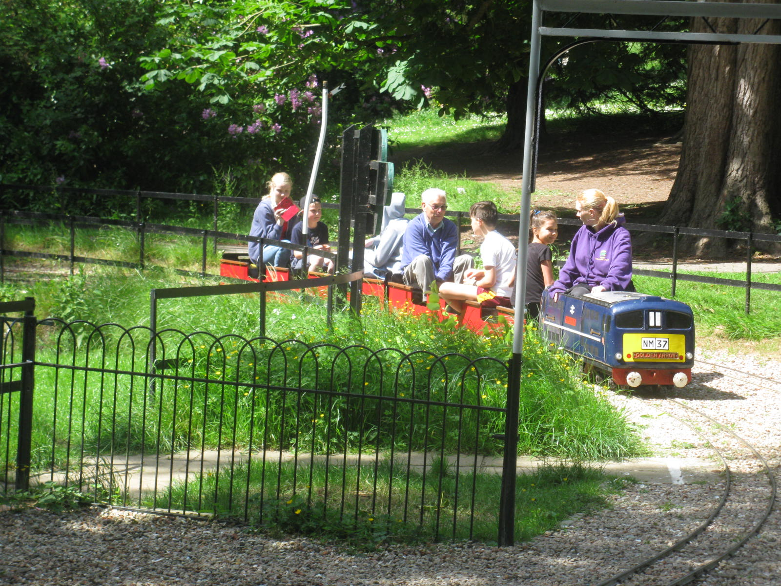 A train full of passengers on the 7¼" gauge Alexandra Park Miniature Railway, Hastings, East Sussex.